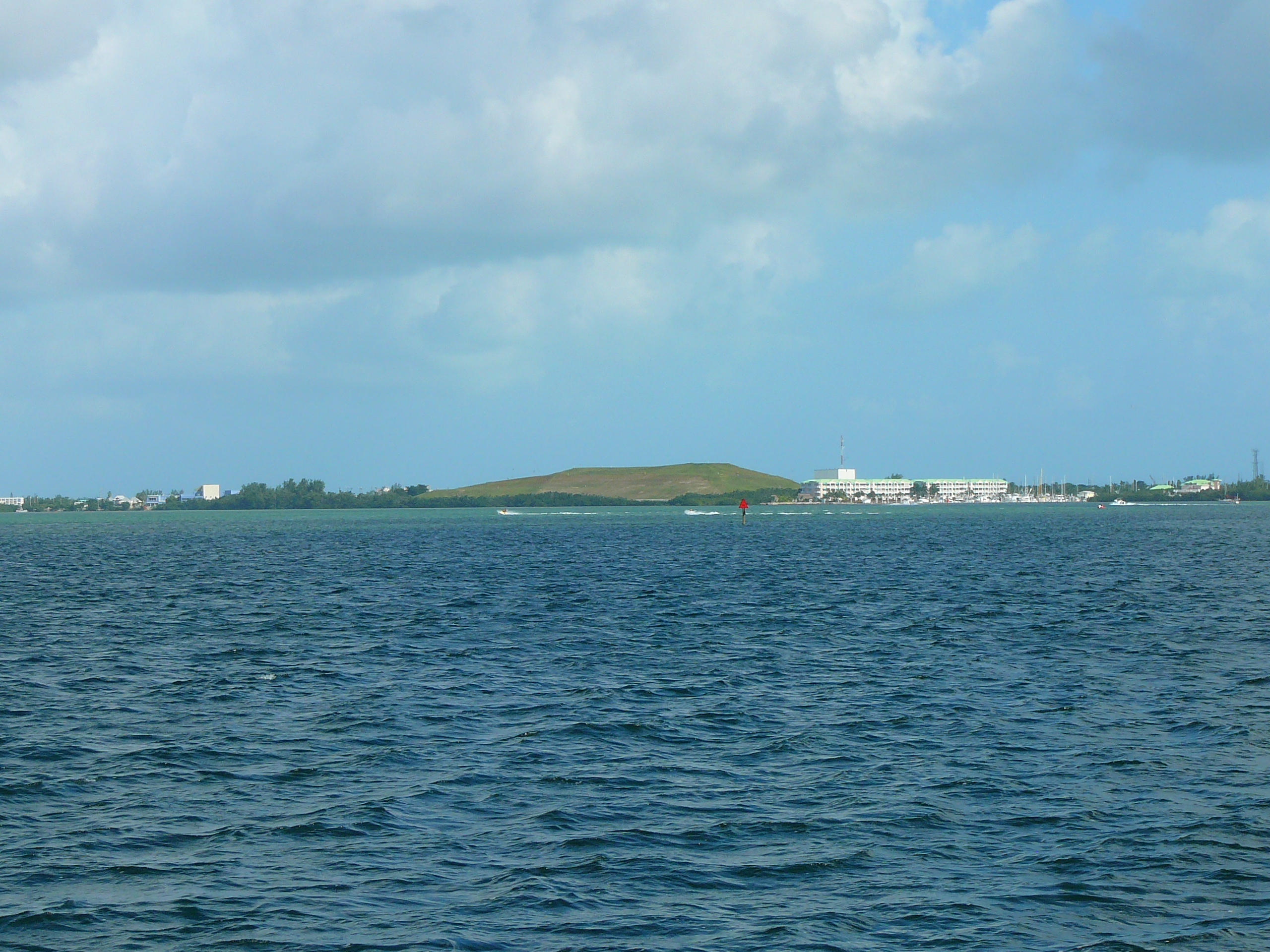 Northern side of Stock Island as seen from the Gulf of Mexico. The Land fill is locally known as Mt. Trashmoore. It has guided many a drunken sailor home after a good days fishing.